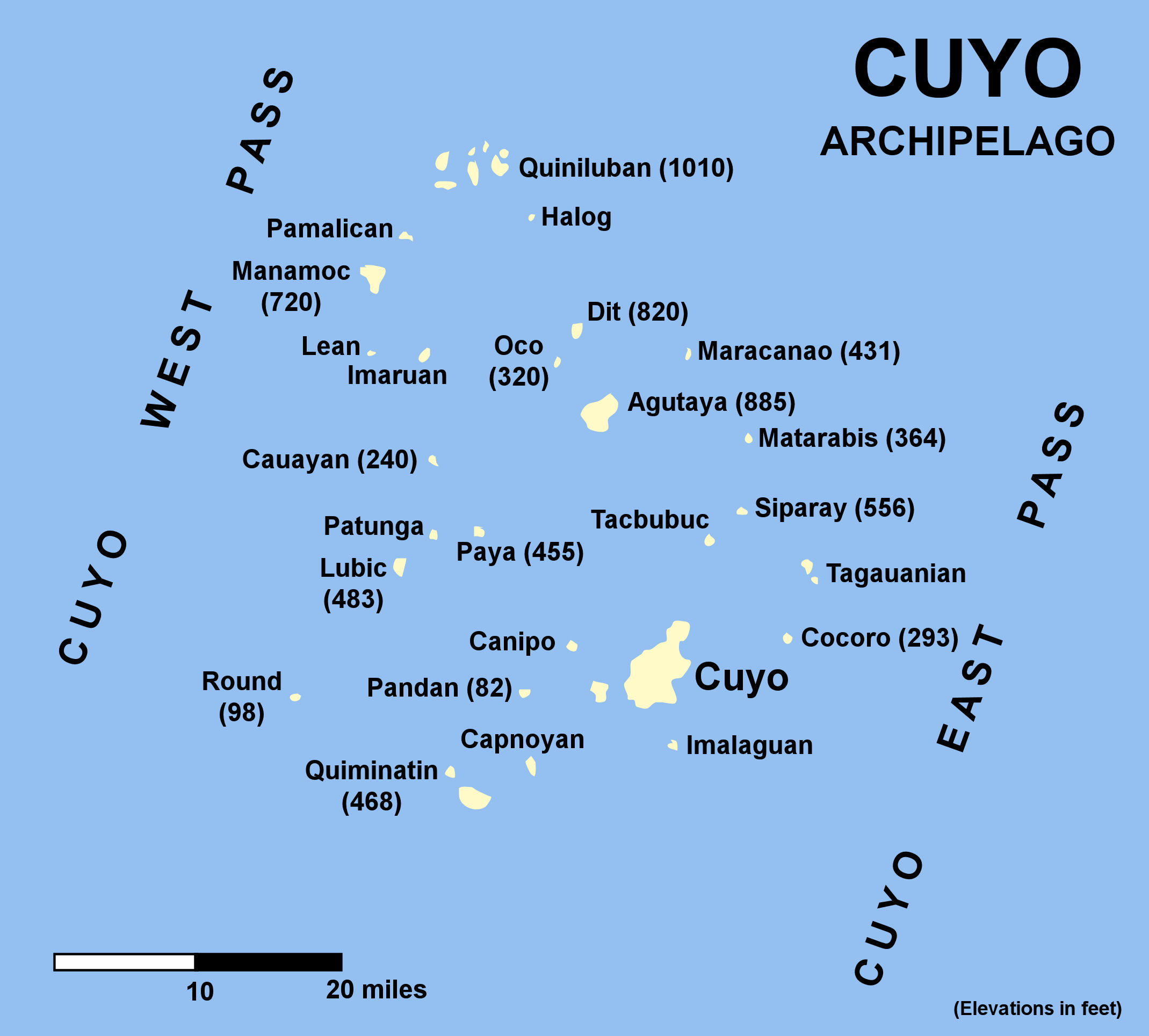 Cuyo_Islands_map with elevations in feet.